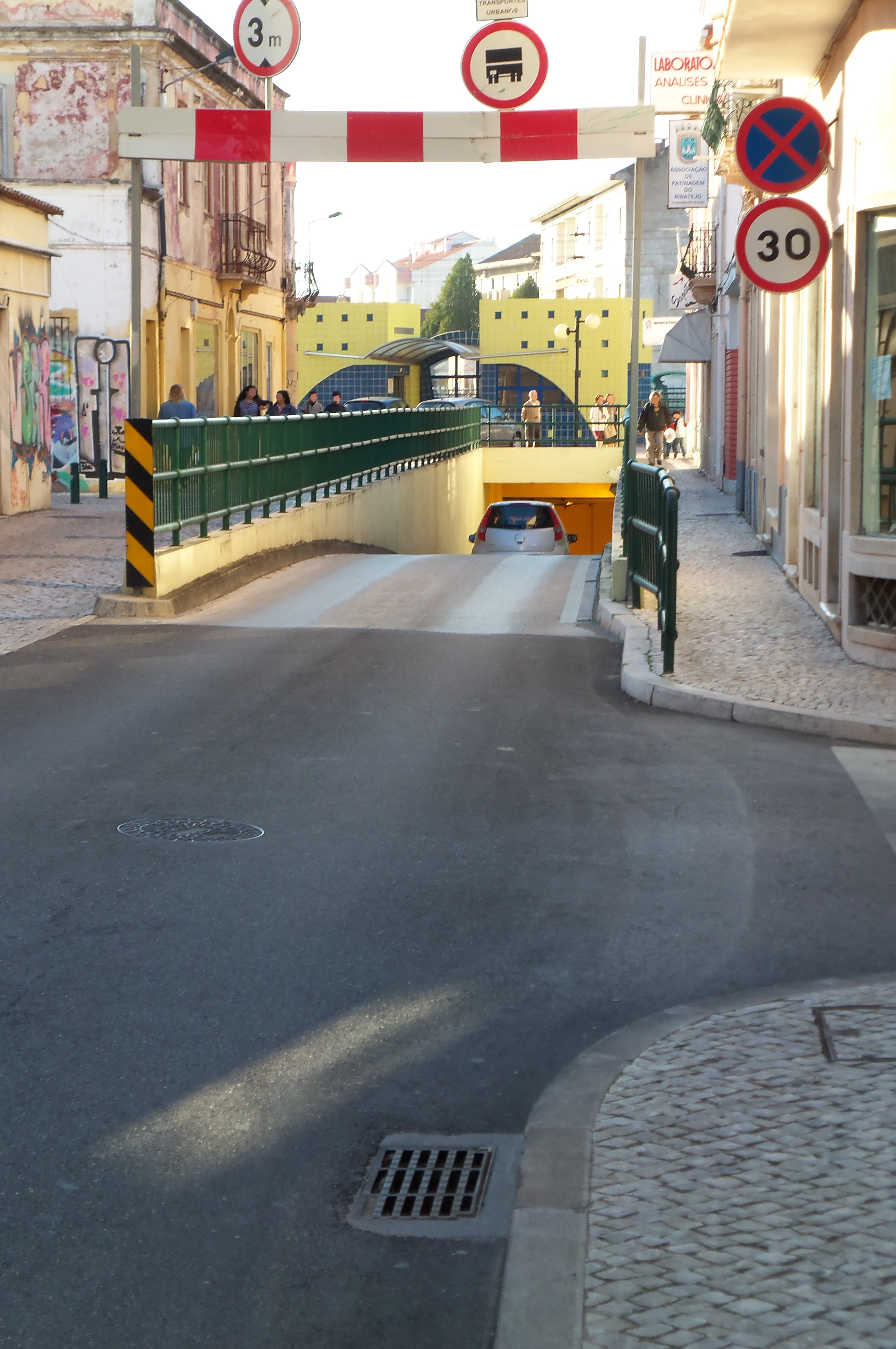 Access to one of the tunnels of Entroncamento.